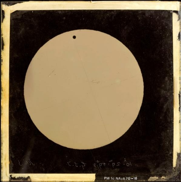 In 1874, William de Wiveleslie Abney went to Luxor, Egypt to photograph the transit of Venus.